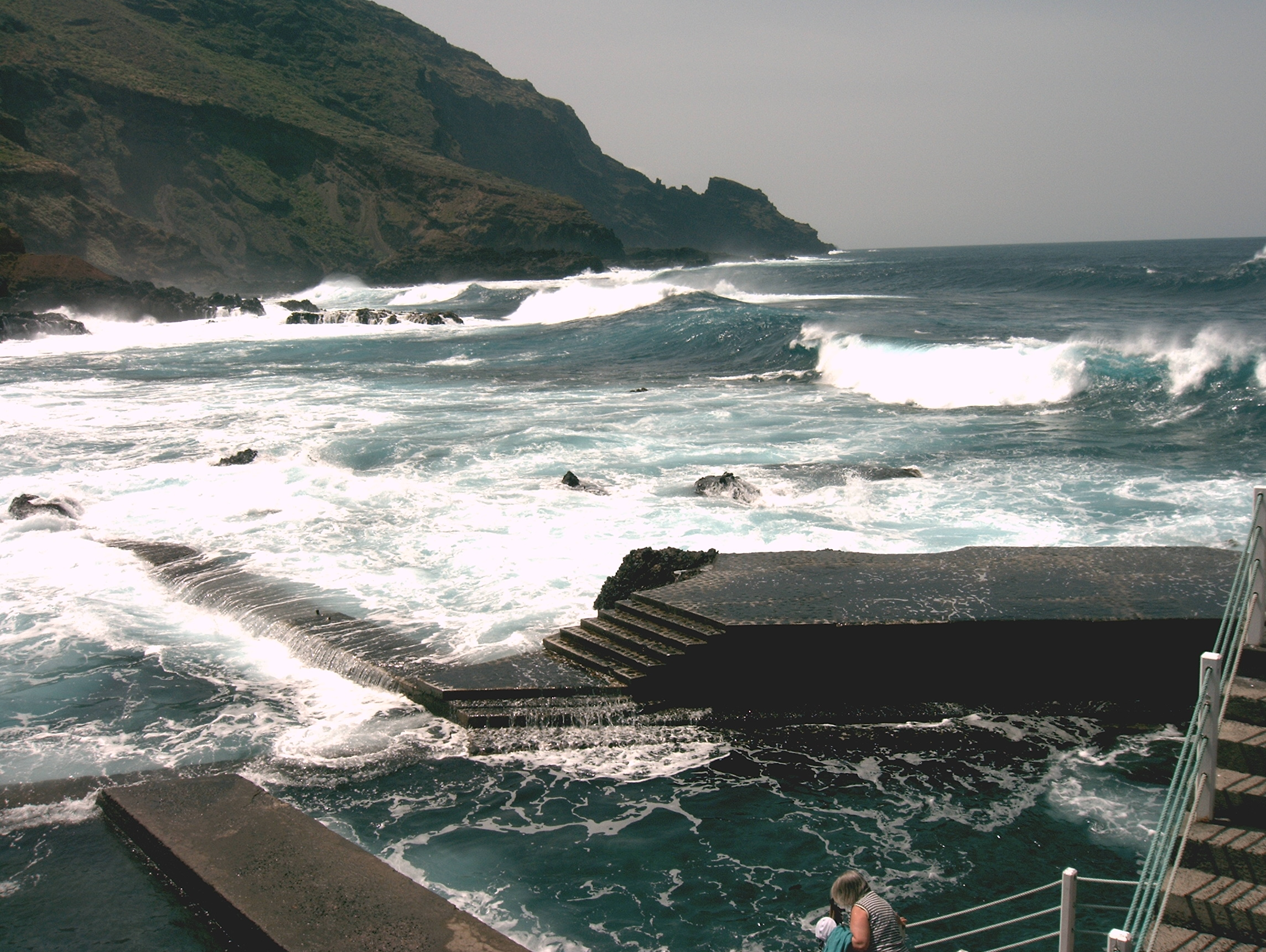 Piscinas de La Fajana, Barlovento